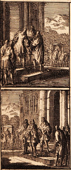 Diplomats coming and going in The Hague around 1700